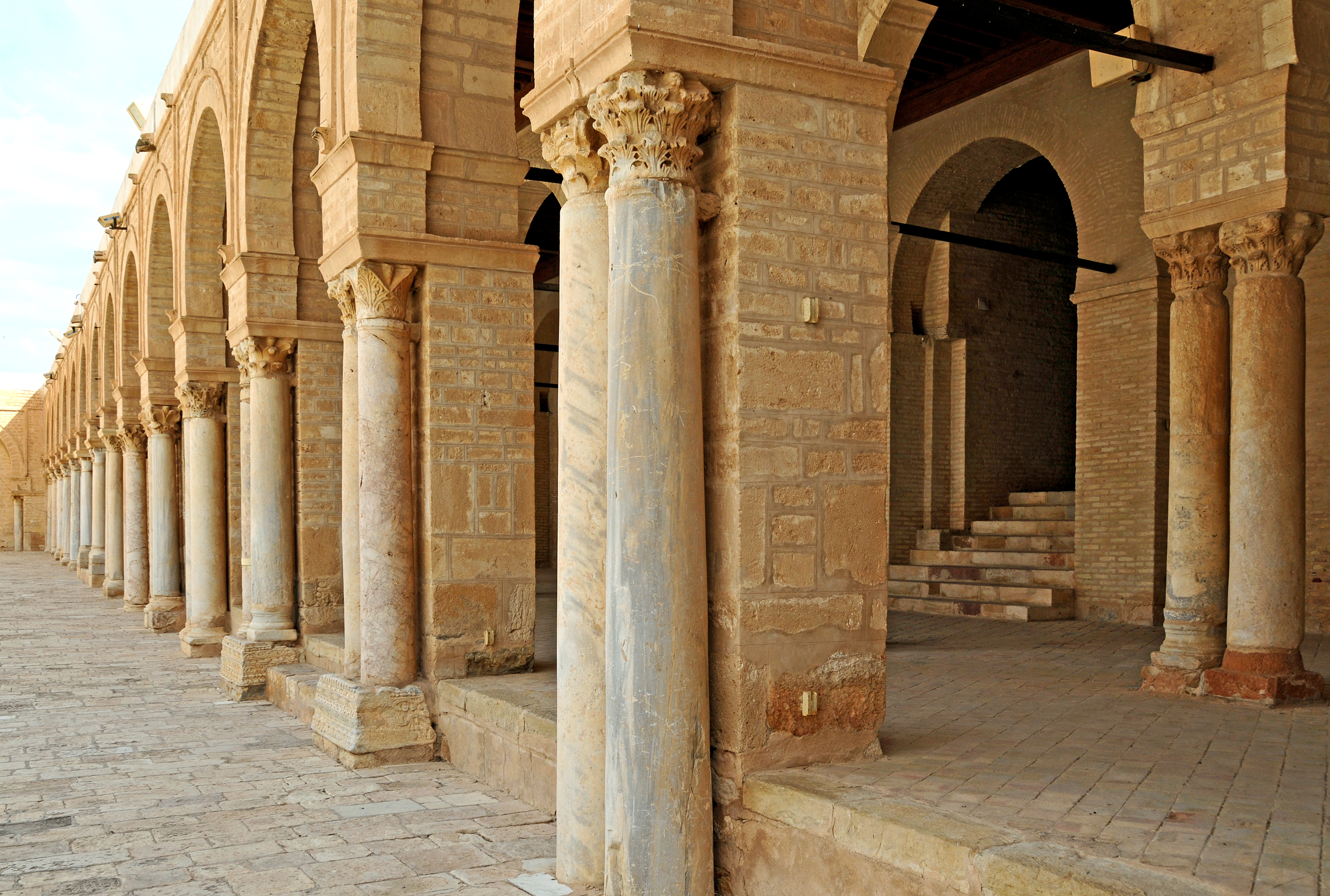 Great Mosque of Kairouan (Mosque of Uqba) — view of the eastern portico of the courtyard, the columns of the portico are reused columns from ancient Roman and Byzantine buildings. The Great Mosque of Kairouan, one of the most important mosques of Tunisia, is the oldest place of worship in the Muslim West.